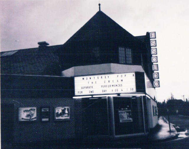 Essoldo Cinema Gerrards Cross in 1971.